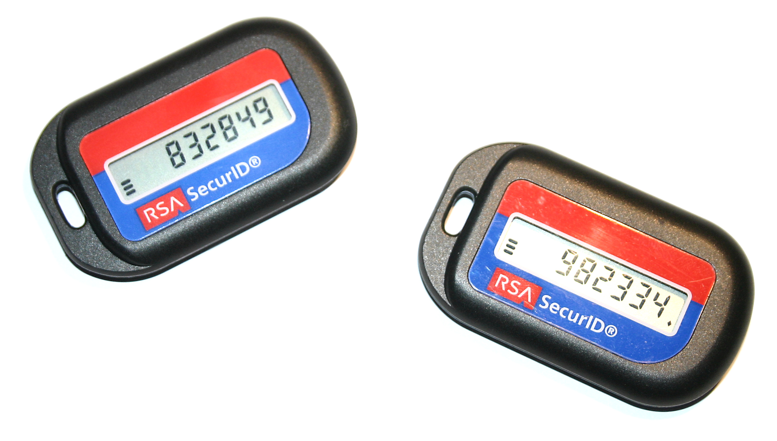 The image shows several tokens (sometimes called digital key or electronic key).